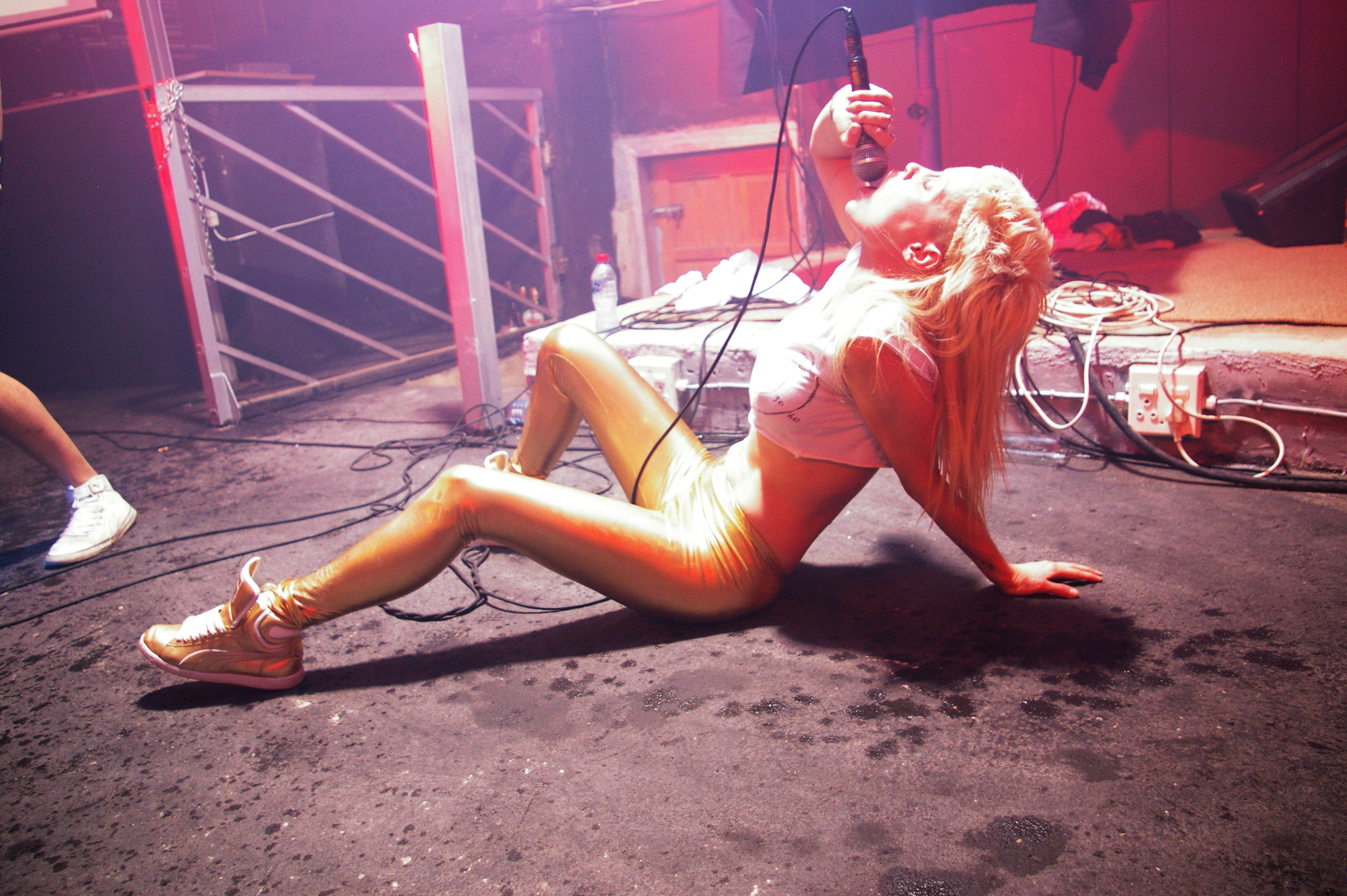 Yo-landi Vi$$ - Die Antwoord.